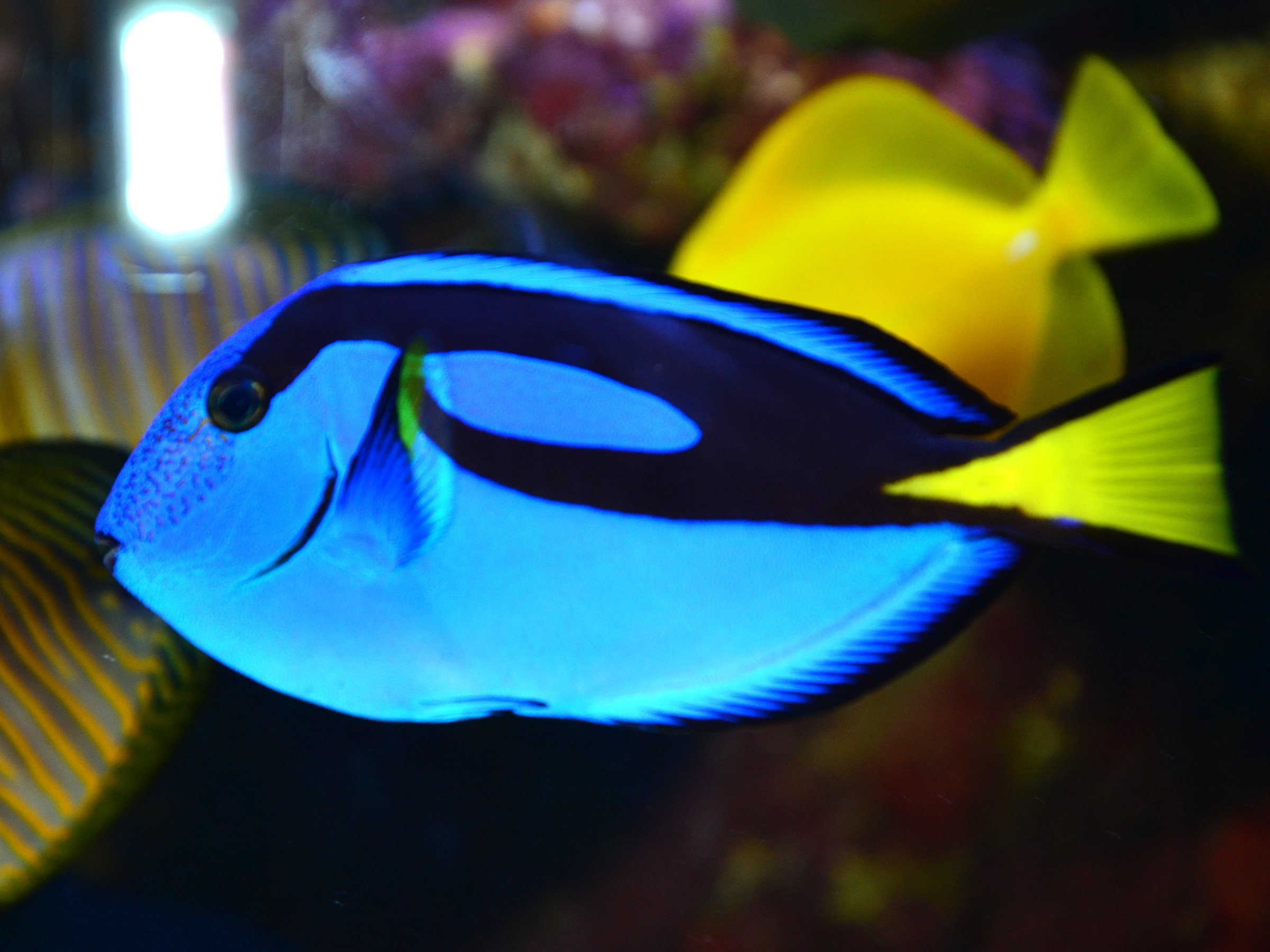 Palette surgeonfish